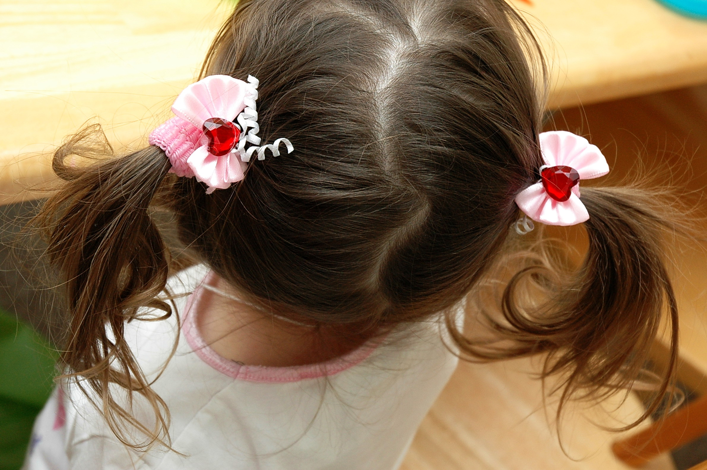 small girl with pigtails.